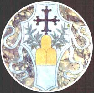 Coat of arms of Order of Our Lady of Monte Oliveto, a benedictine congregation, from an affresco at Santa Maria in Pilastrella (Italy)